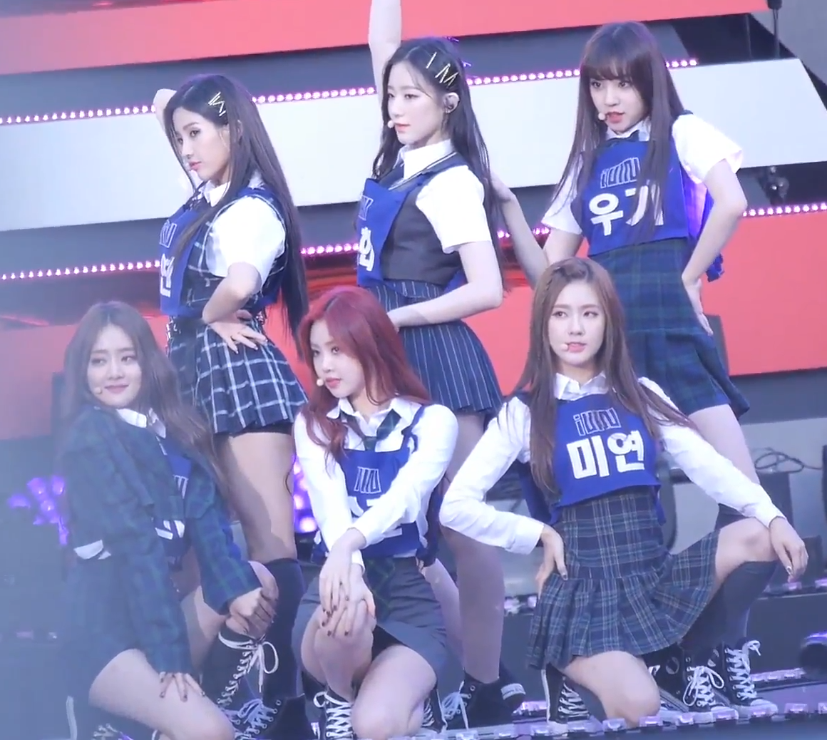 (G)I-DLE at DMC Festival 2018 Korean Music Wave on September 8, 2018.